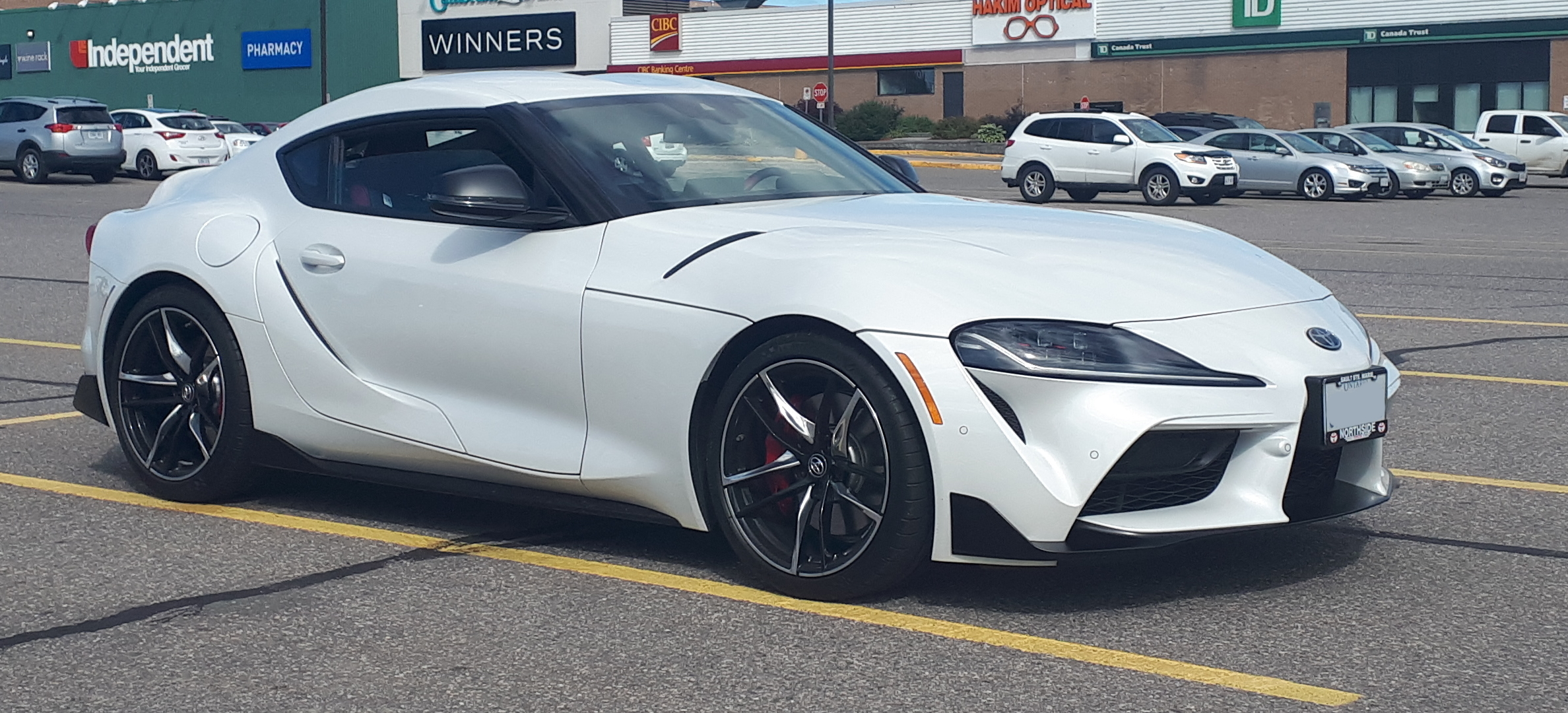 2020 Toyota GR Supra photographed in Sault Ste. Marie, Ontario, Canada